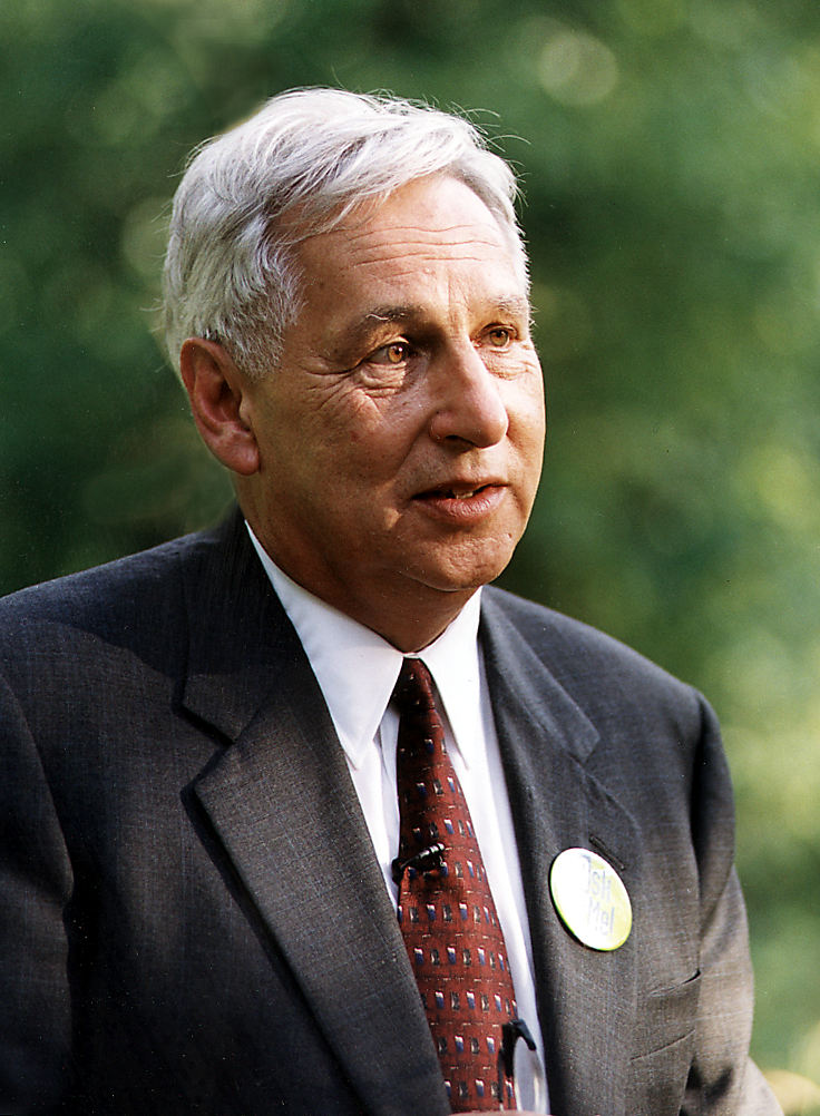 Seattle Mayor Paul Schell, 1999. Schell served as mayor from 1998 through 2001. Item 101053, Fleets and Facilities Department Imagebank Collection (Record Series 0207-01), Seattle Municipal Archives.